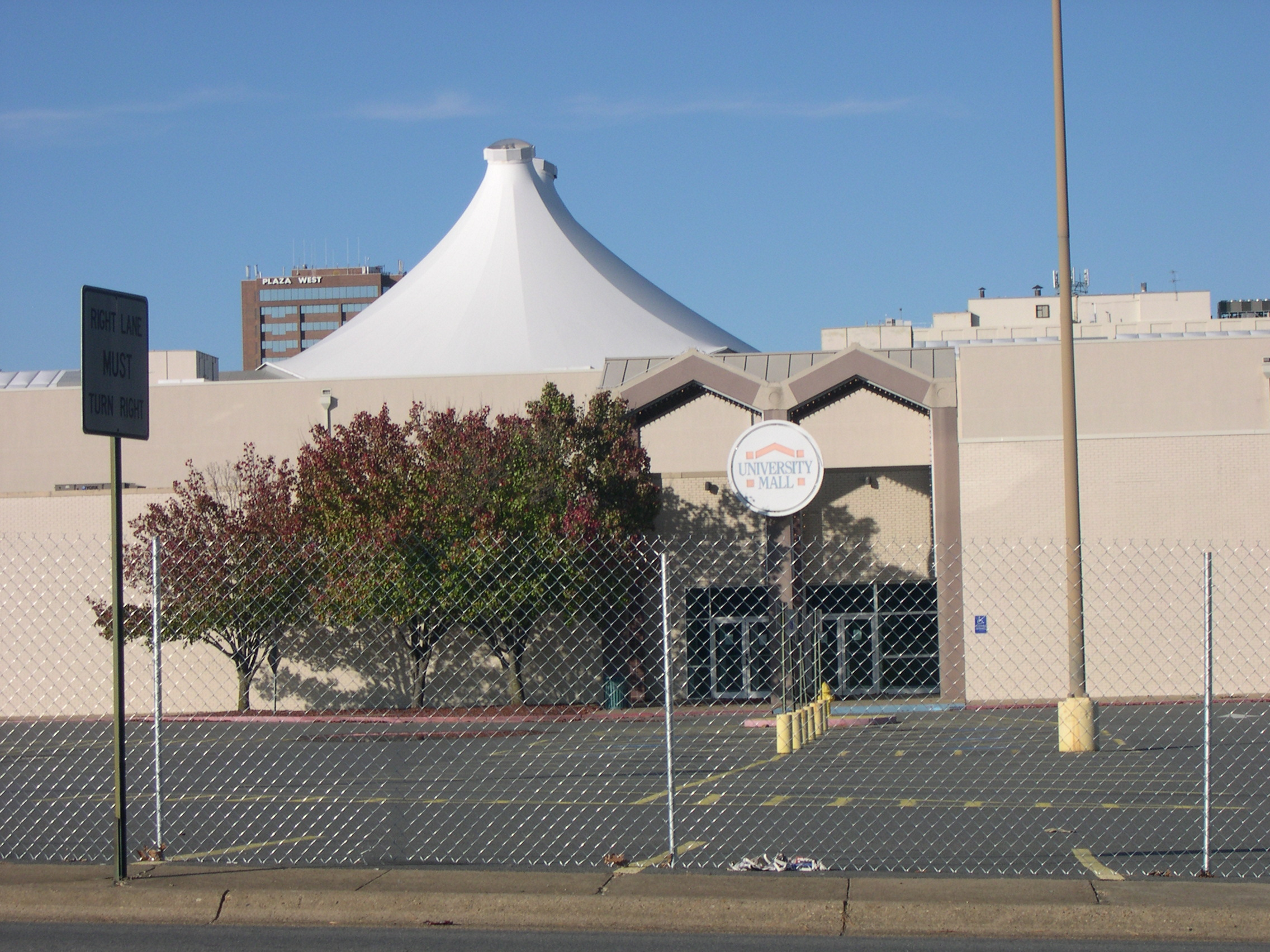 This is the South entrance to the defunct University Mall shortly before demolition.